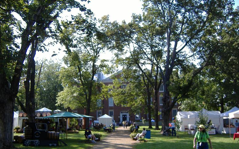 The Kentucky Bourbon Festival, in front of Spalding Hall, in Bardstown, Kentucky.